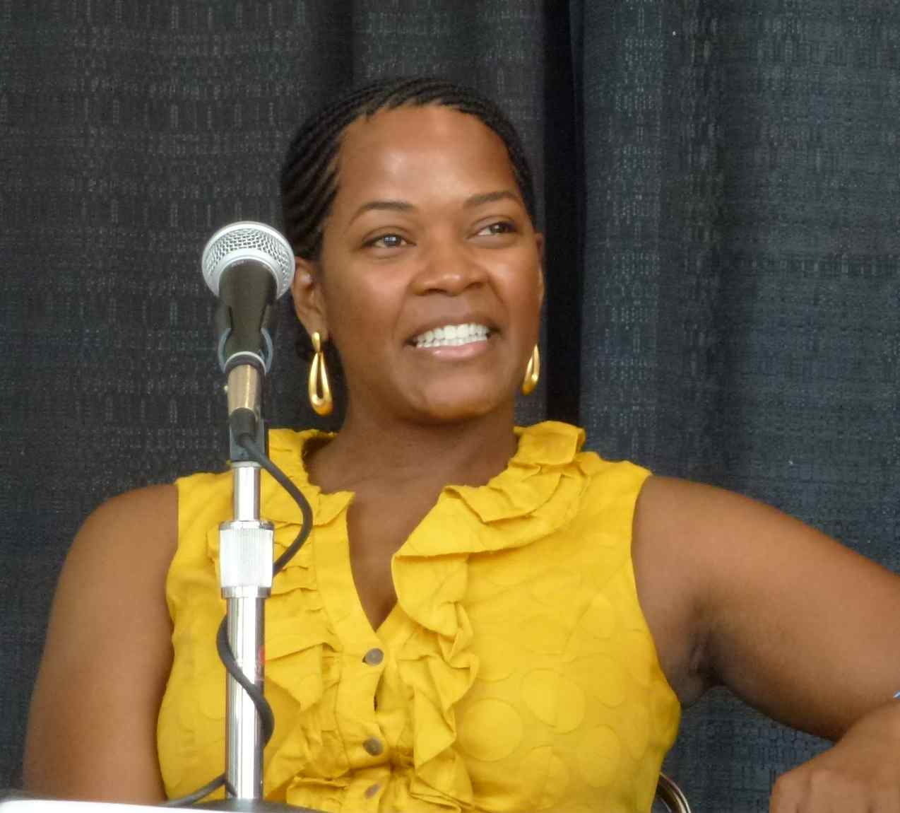 Carolyn Jones-Young at the New England Basketball Hall of Fame induction dinner, when she was being inducted into the Hall of Fame.